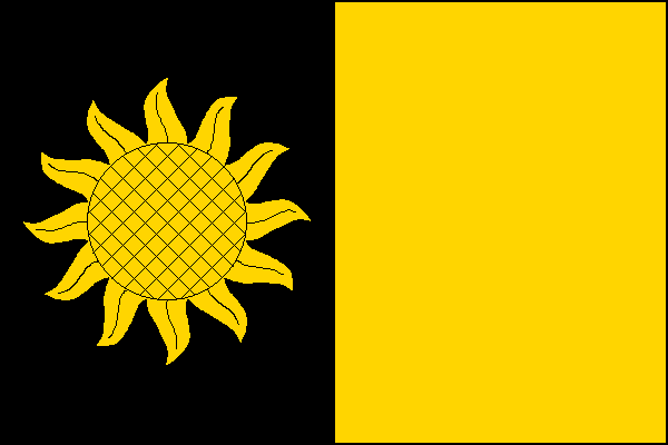 Flag of Stráž pod Ralskem (a town in Liberec Region, the Czech Republic)